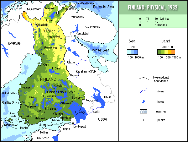 Map of Finland in 1932, physical